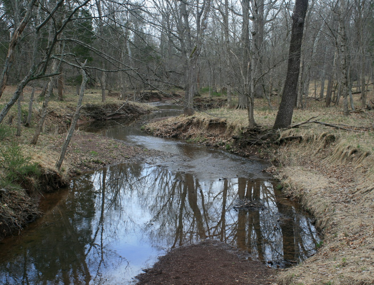 Chinn Branch at Manassas battlefield